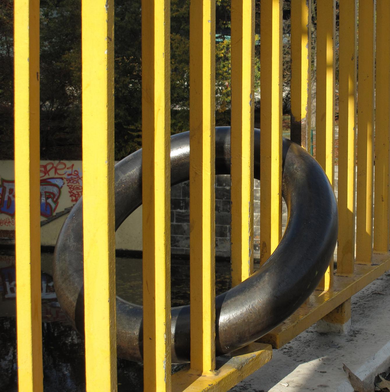 Public art „Der Ring“ (The ring), created in 1985 by the artist Norbert Radermacher. It’s a part of his theme „Stücke für Städte“ (Picies for cities), installed at the Potsdamer Brücke in Berlin-Tiergarten, Germany. The bridge, new built in 1968 and a part of the Potsdamer Straße, is crossing the Landwehrkanal (canal).